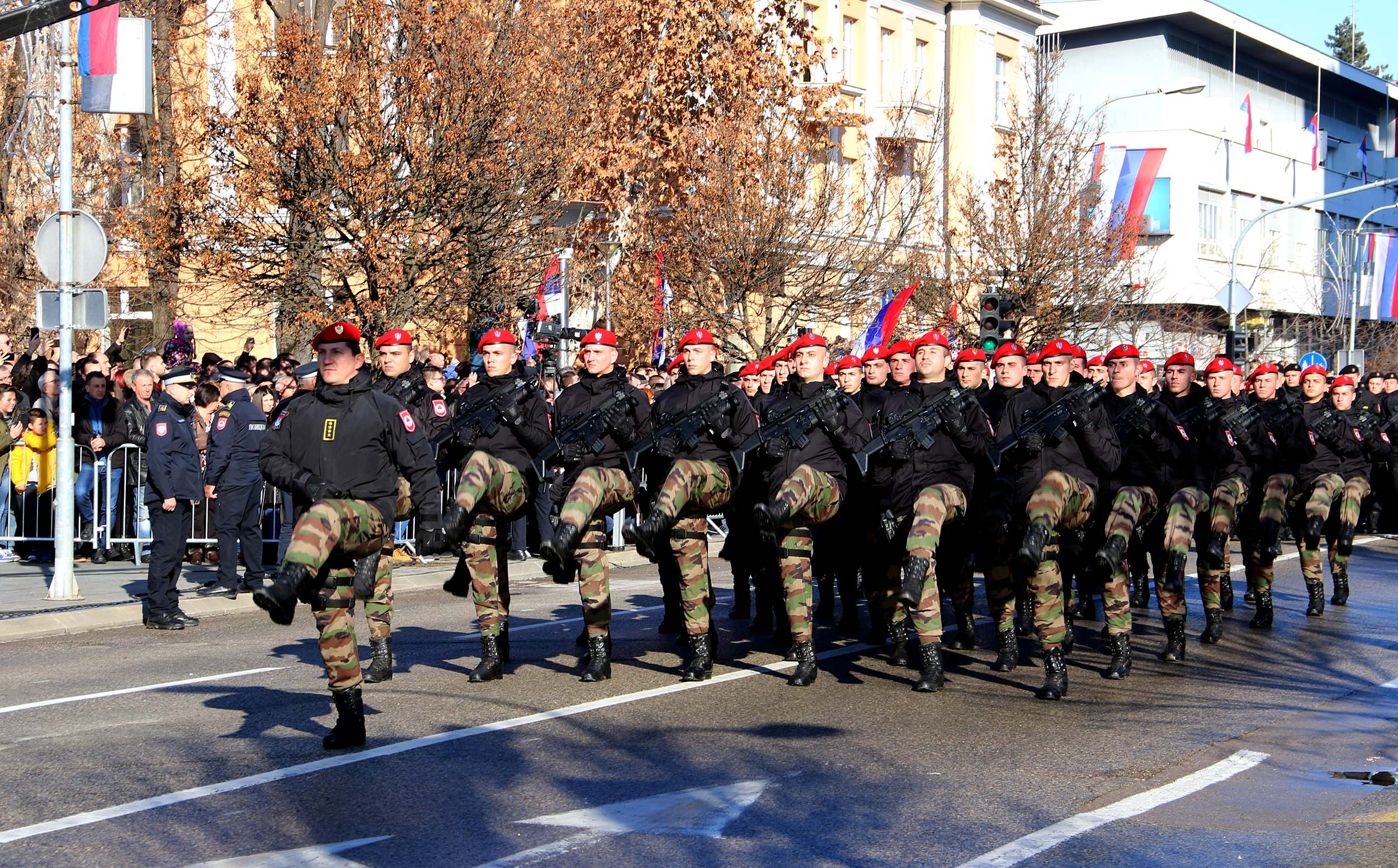 Special Anti-Terrorist Unit of the Ministry of Interior of Repulika Srpska during Republic Day parade on 2019 in Banja Luka.